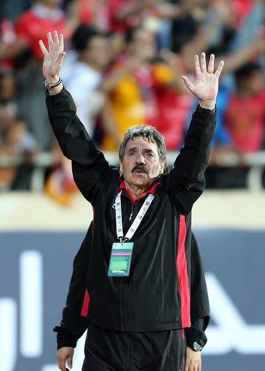 Toni Oliveira managing Tractor Sazi in match against Esteghlal, Azadi Stadium